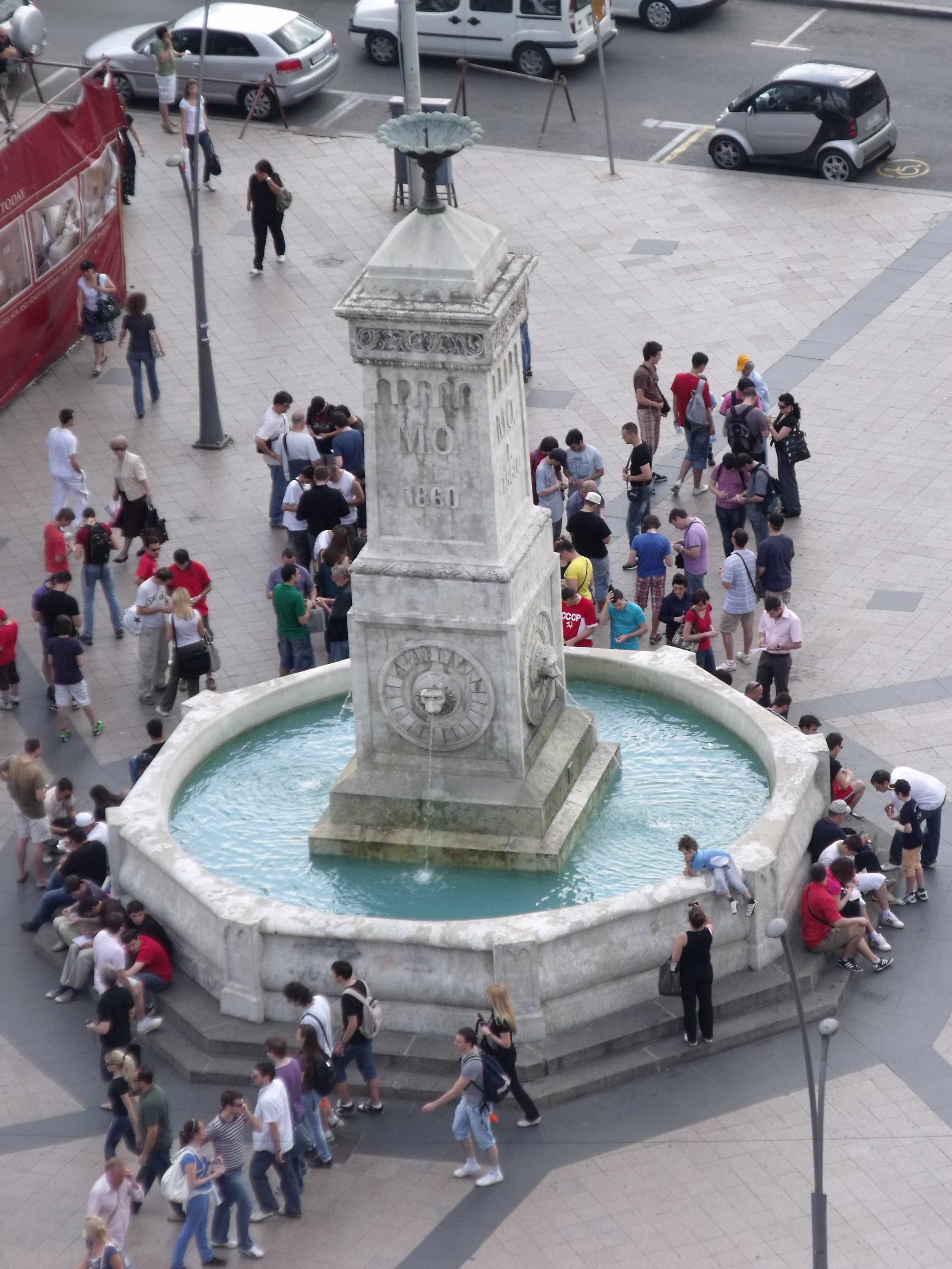 Terazije fountain in Belgrade